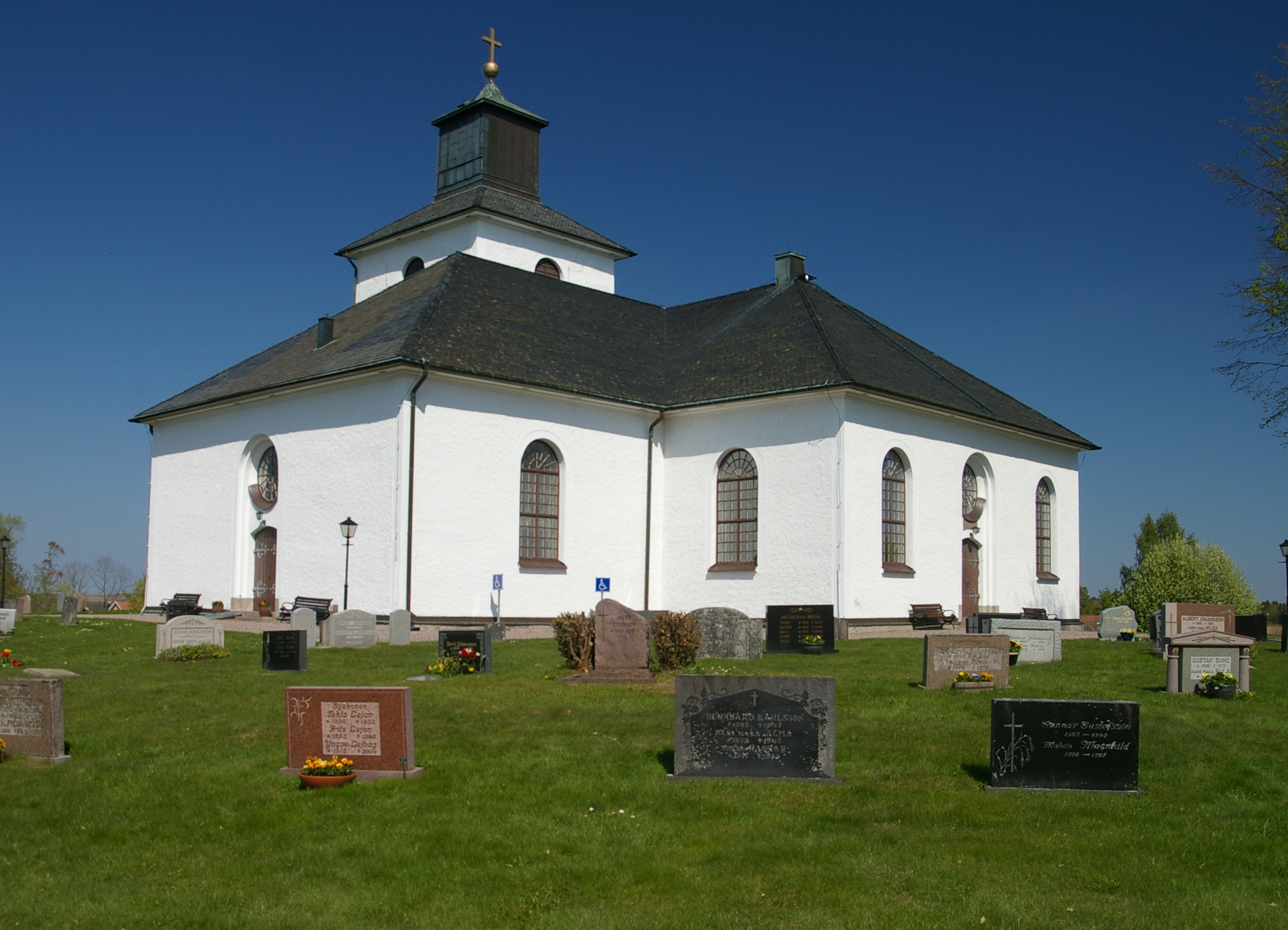 Dimbo-Ottravad church in Västergötland, Sweden.